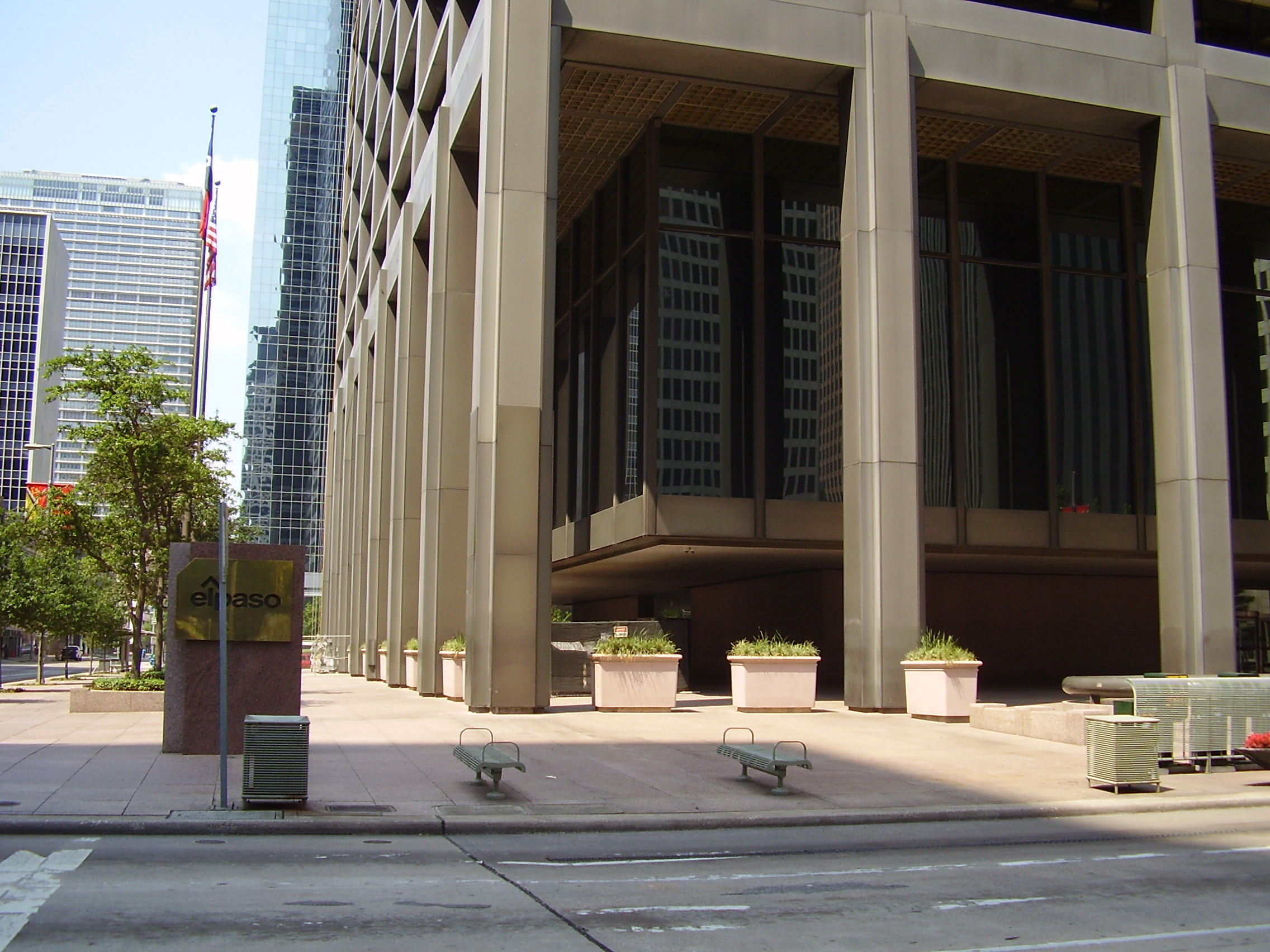 El Paso Energy Building, El Paso Corporation headquarters